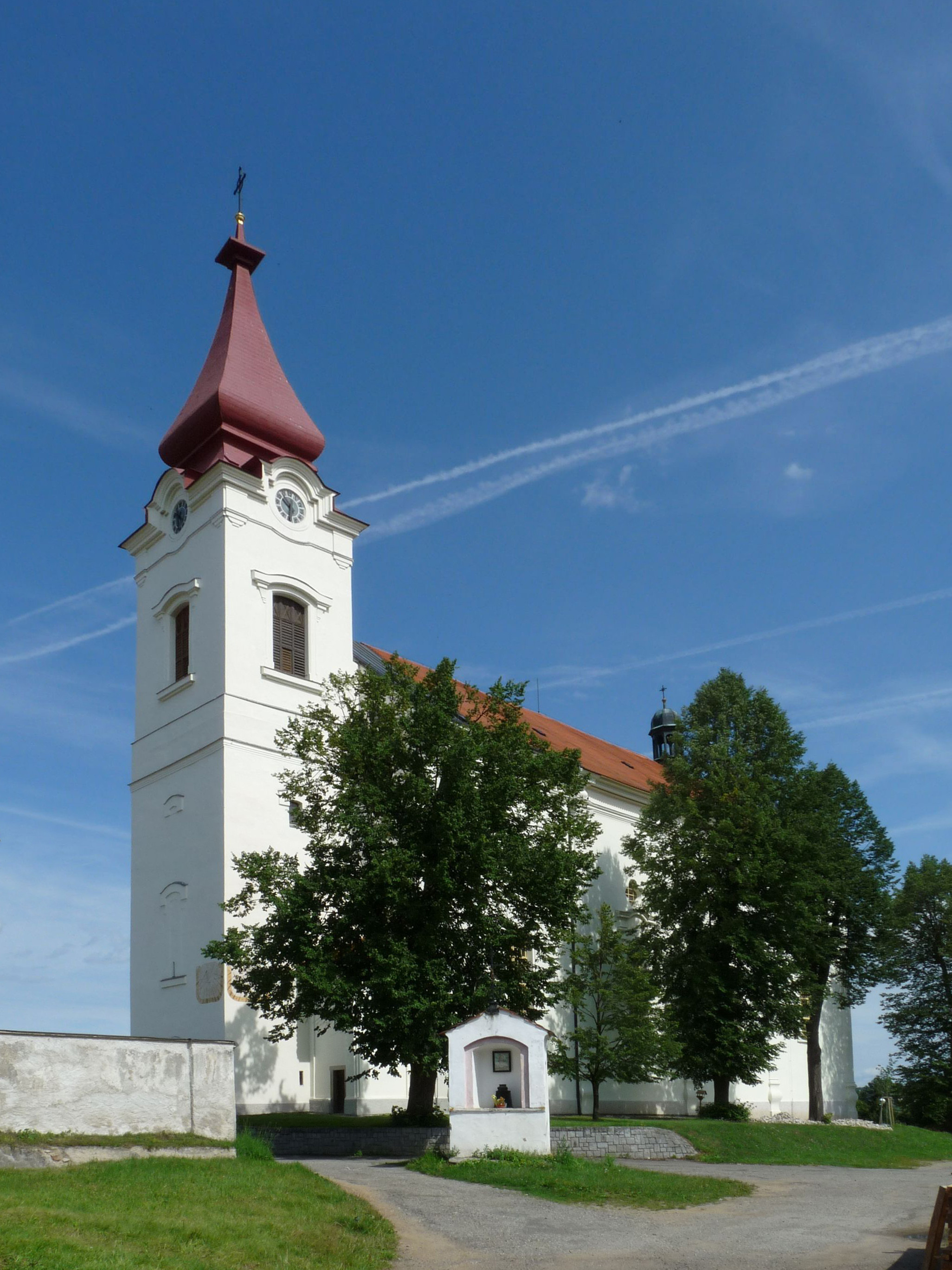 Saint Thomas Becket Church in the market town of Nová Cerekev, Pelhřimov District, Czech Republic.